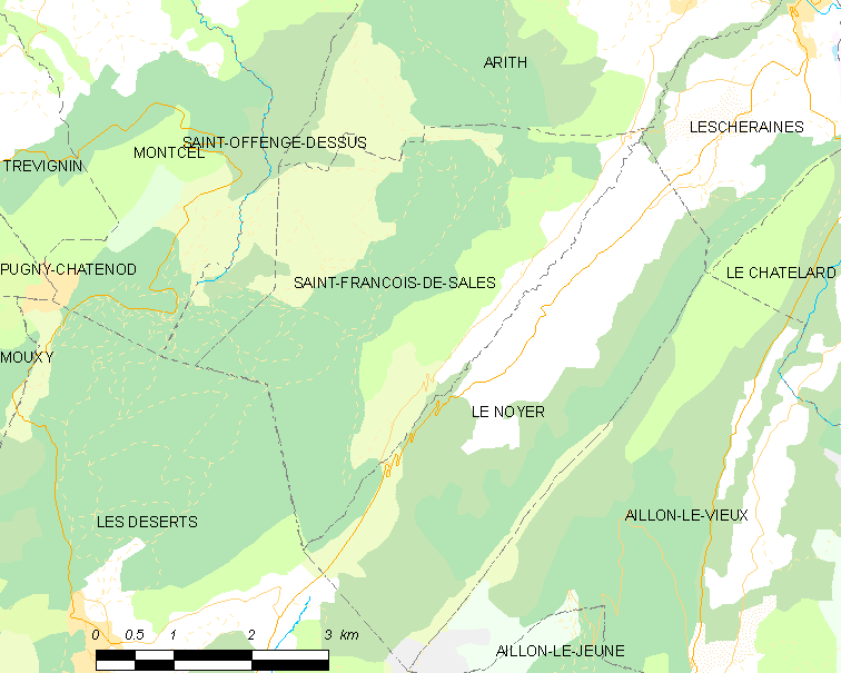 Map of French municipality